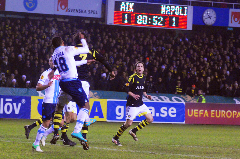 A picture from AIK-Napoli, UEFA Europa League 2012-2013.